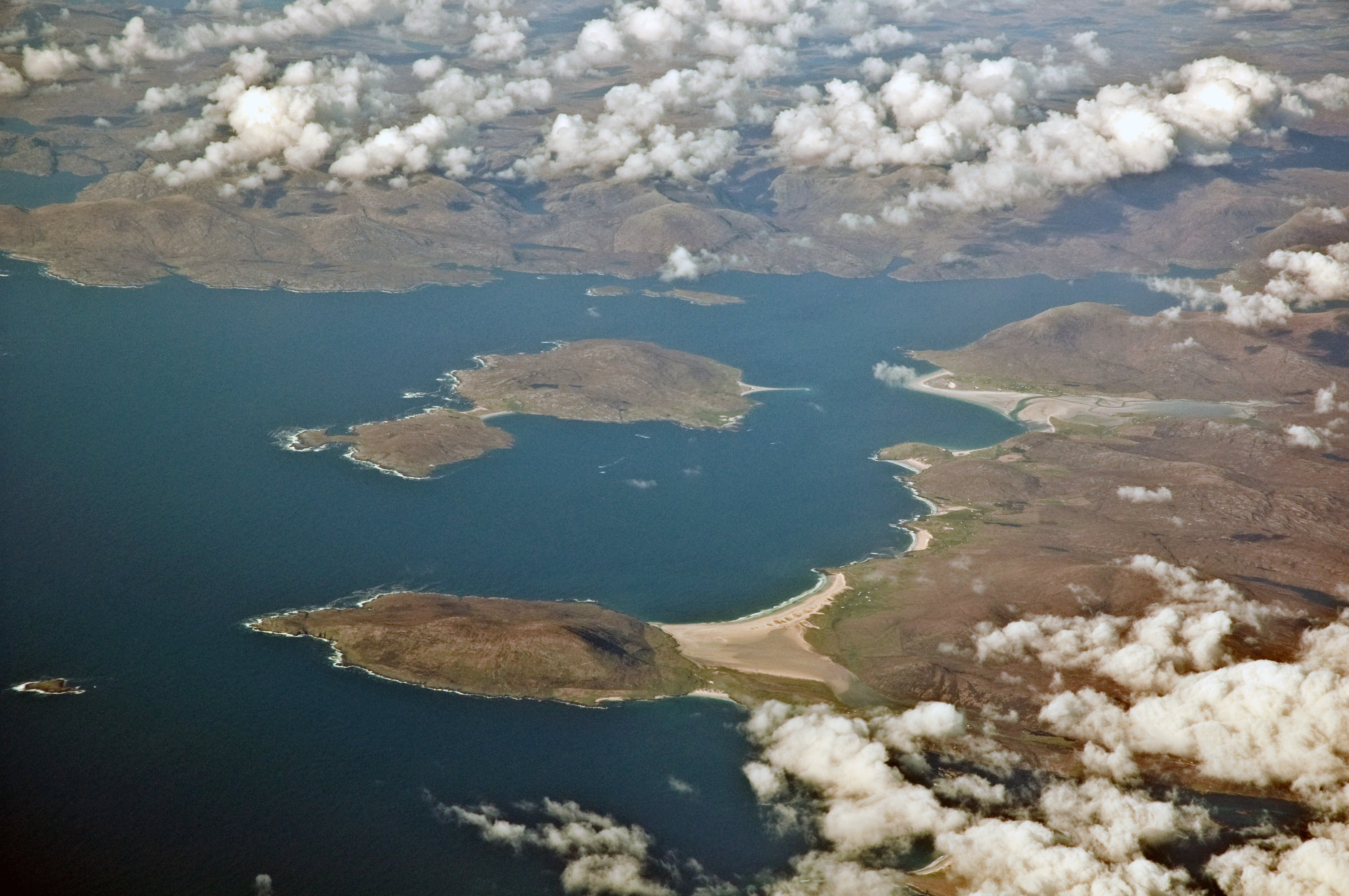 En route London to Los Angeles on an Air NZ 777